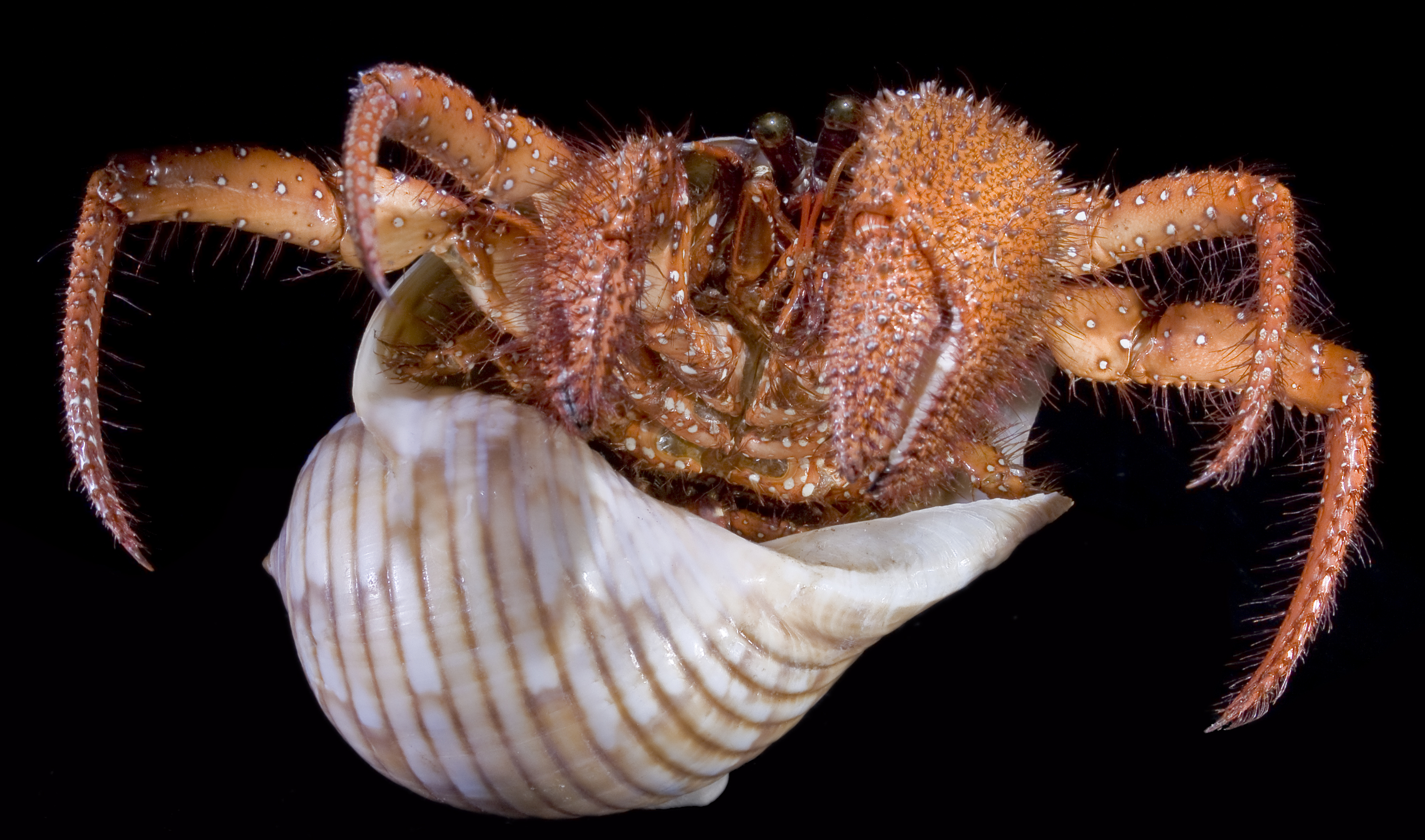 Dardanus megistos ,Diogenidae Locality : Aliguay Island Philipphines Size : 14x13cm